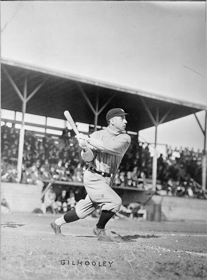 Frank Gilhooley, baseball player with the New York Yankees, swings his bat at home plate.